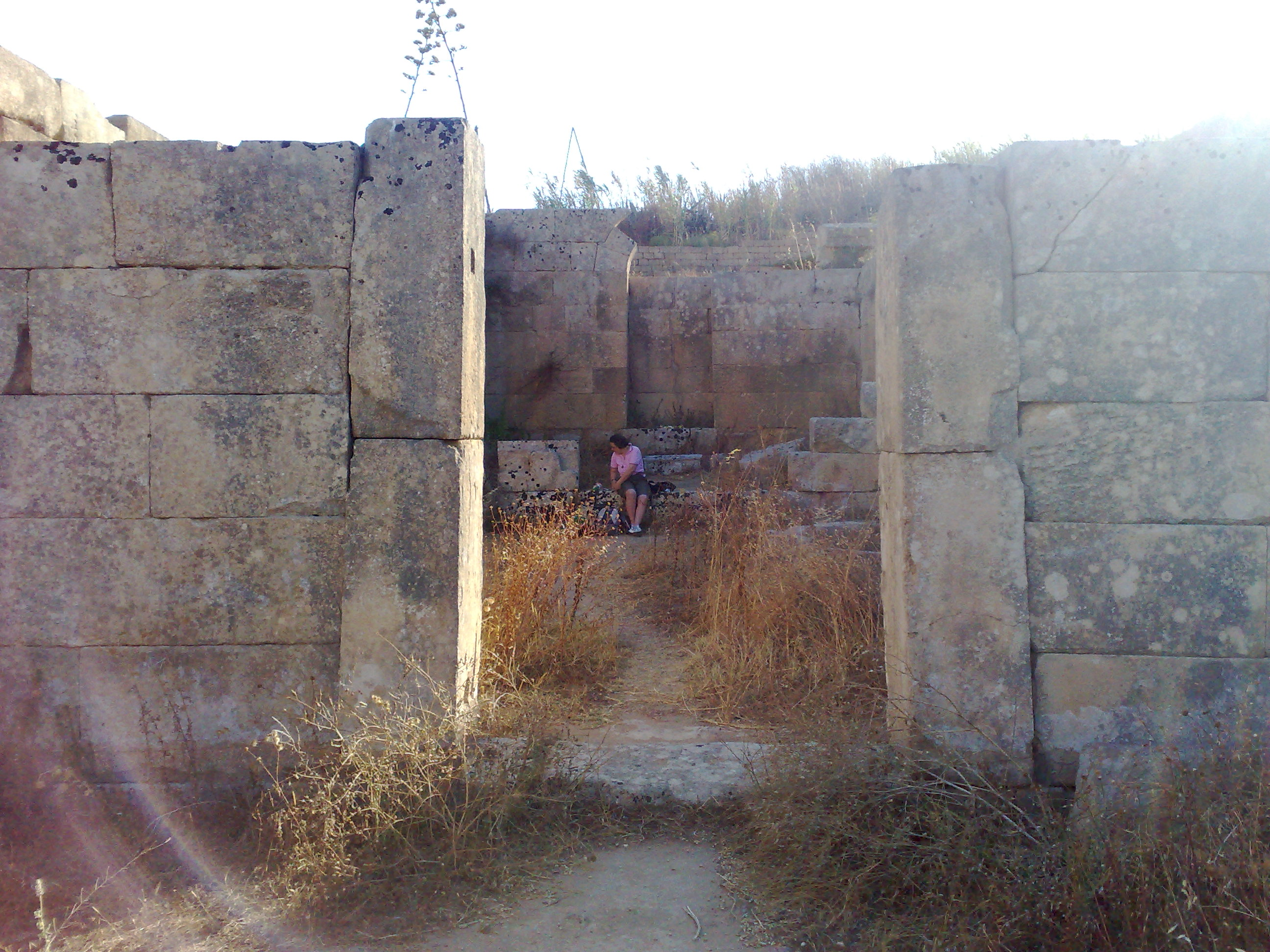 Selinunte Trapani: Sanctuary of Demeter Malophoros